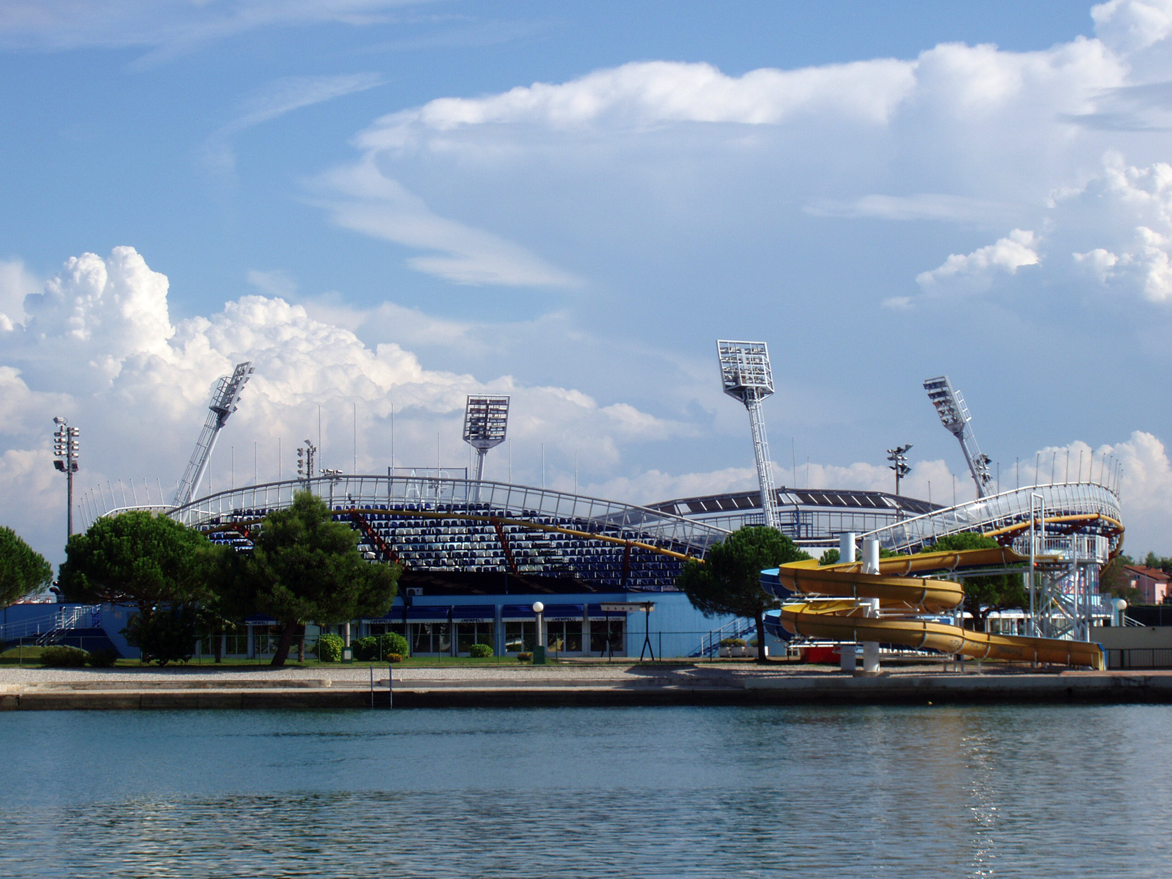 Croatian Open stadium Stella Maris in Umag, Croatia. View from across the artificial bay. Taken by me on September 2006. Mariano 11:51, 3 October 2006 (UTC)